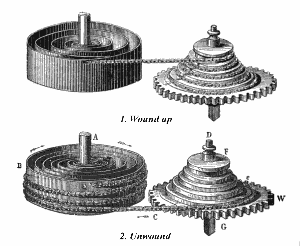 Woodcut of fusee and mainspring, showing operation. The fusee (cone-shaped pulley) was used in antique clocks and watches to improve accuracy by equalizing the force of the mainspring. The labeled parts are: (A) mainspring arbor, (B) mainspring barrel, (C) chain, (D) fusee axle, (E) attachment of chain to barrel, (e) attachment of chain to fusee, (F) fusee, (G) winding arbor, (W) output gear wheel. Alterations: combined two illustrations from the source, Fig. 14 p.24 and Fig.15 p.25 into one image, and added the captions. These drawings have a slight mechanical error. The mainspring inside the barrel is depicted as wound up in the bottom drawing, with more turns wrapped around the axle, and unwound in the top drawing. However in a fusee movement the mainspring is fully wound when the chain is wrapped around the fusee, as in the top drawing, and unwinds as the chain is wrapped around the barrel. Therefore the drawings of the mainspring should be reversed, with more turns shown in the top drawing.